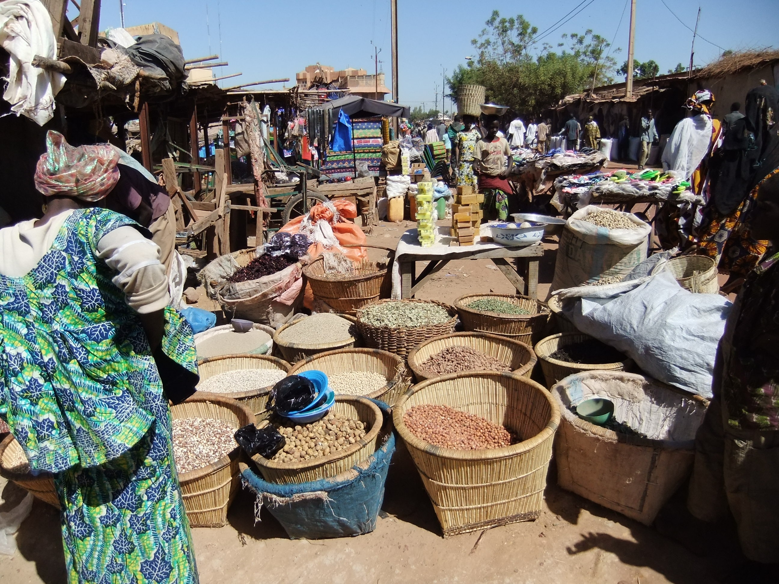 Djenne, Mali This is an image of "African people at work" from Mali